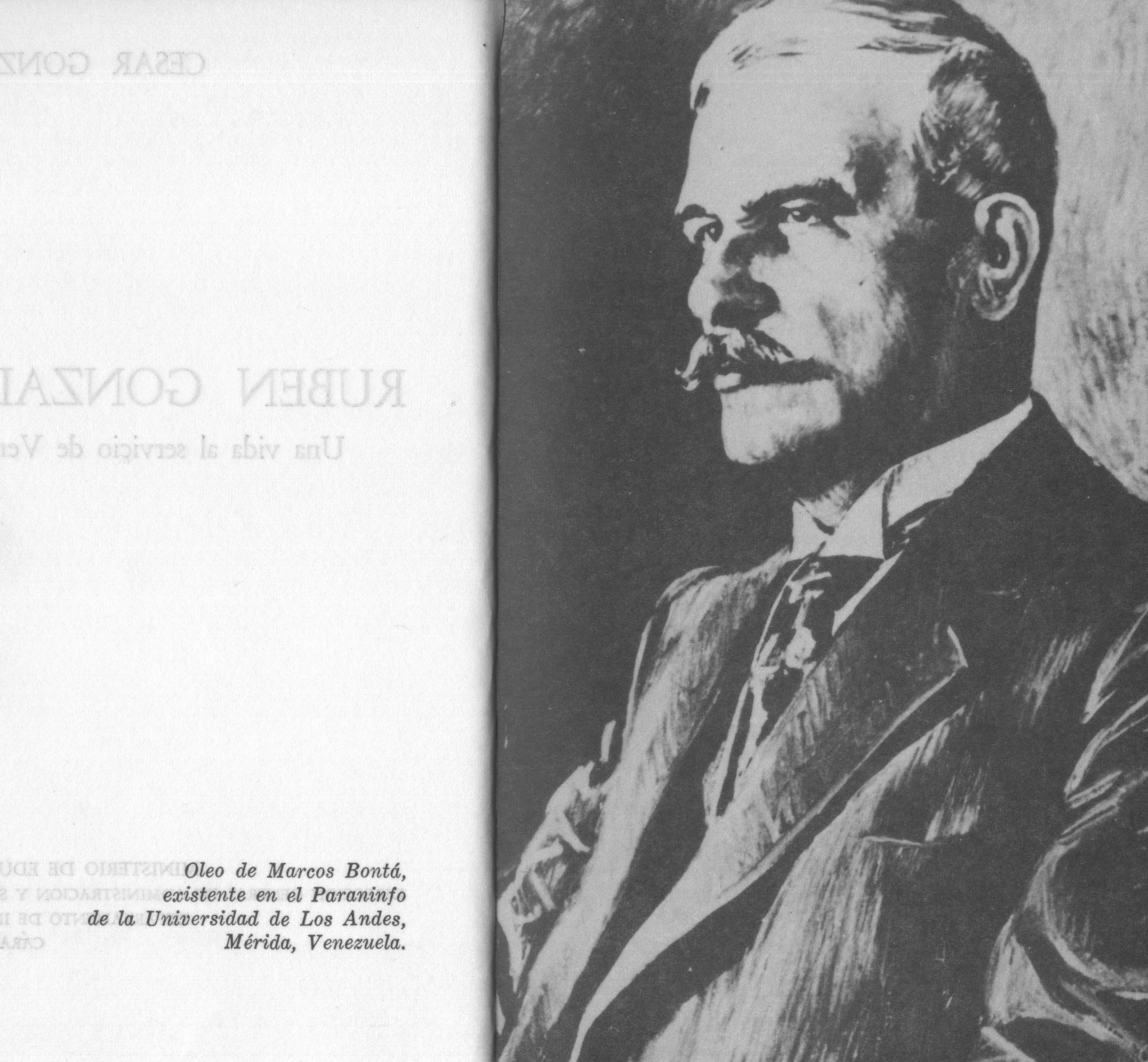 Oil painting bust, photocopy from original book picture.